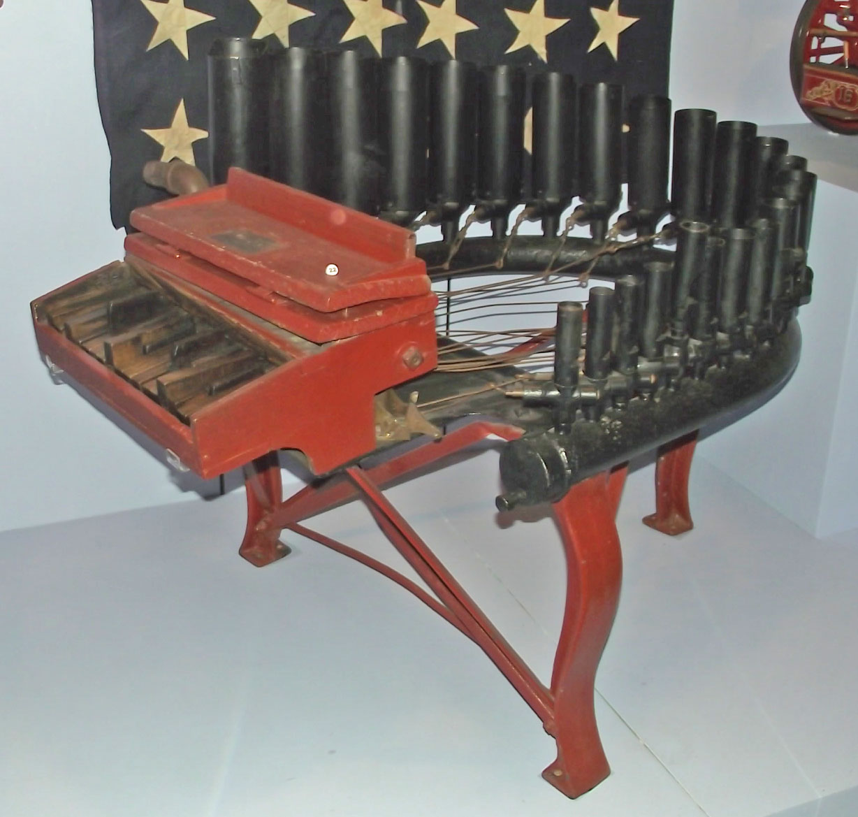 This is a miniature 24-whistle steam calliope (ca 1901) built in Cincinnati by George Kratz and is possibly the only Kratz steam calliope still in existence. This calliope was used on the fifth Frenchs ‘’New Sensation’’ (1901-1918) a showboat Captained by Augustus French and his wife, Callie French. The calliope is now in the collection at The Mariners’ Museum.